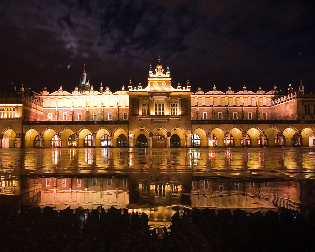 Sukiennice (Cloth Hall) at the Main Market Square in Kraków